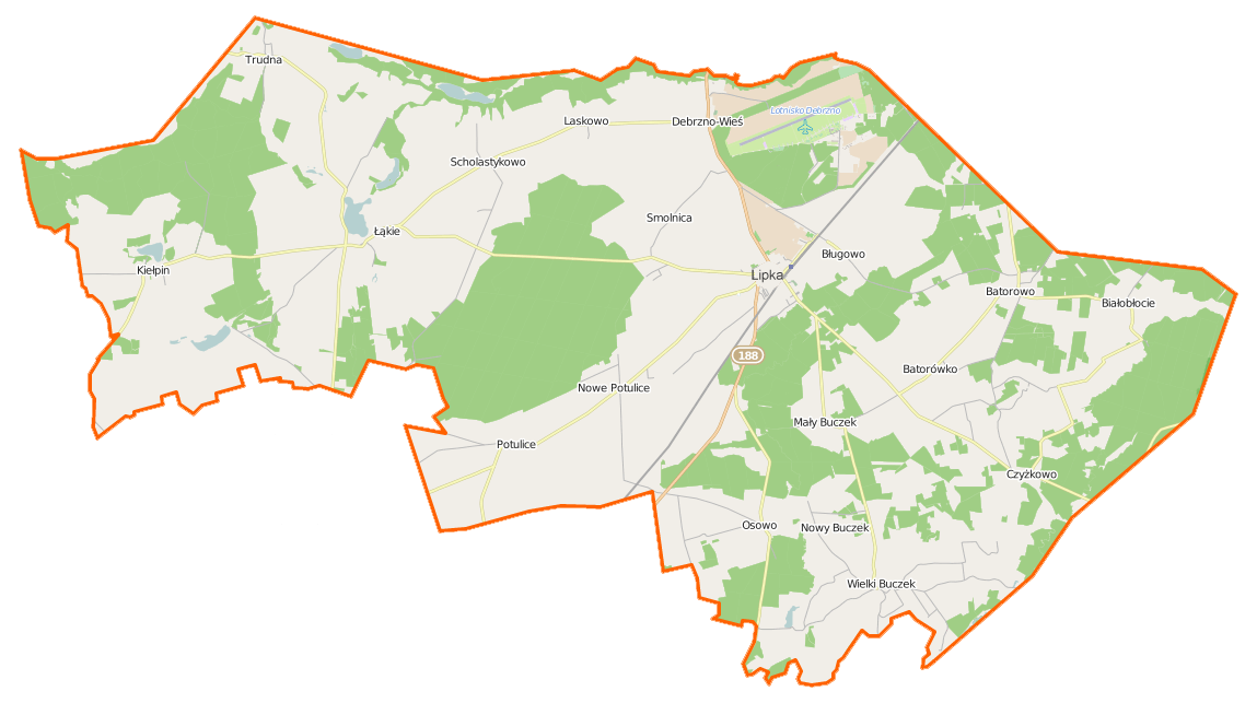 Map of Gmina Lipka, Poland This map of Lipka (gmina) was created from OpenStreetMap project data, collected by the community. This map may be incomplete, and may contain errors. Don't rely solely on it for navigation.